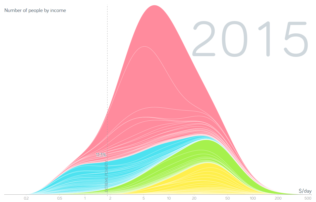 Density Function of the Worlds Income Distribution in 2015 by Continent, logarithmic scale Asia und Oceania Africa America Europe